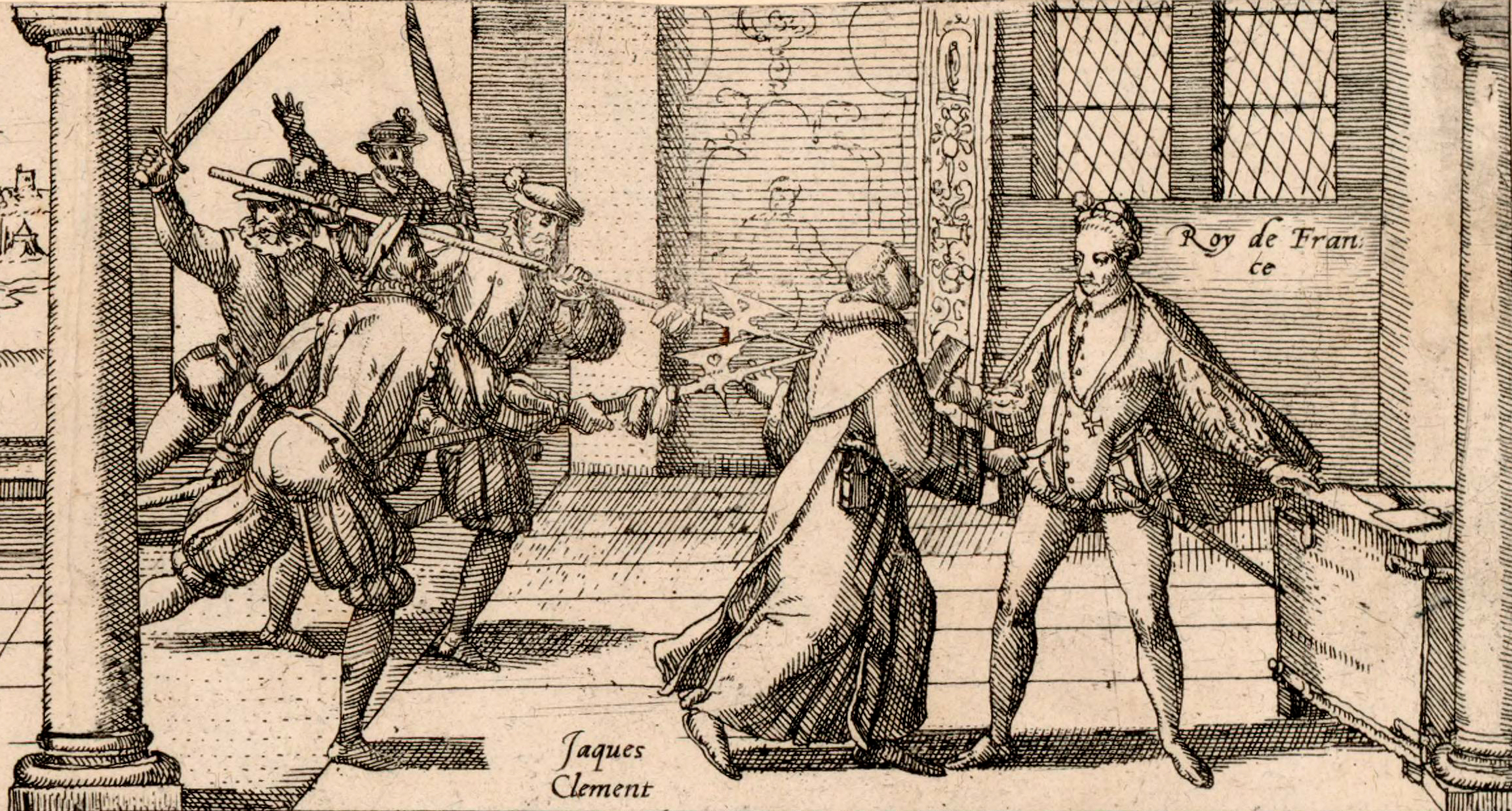 Henry III of France murdered by Jacques Clement.